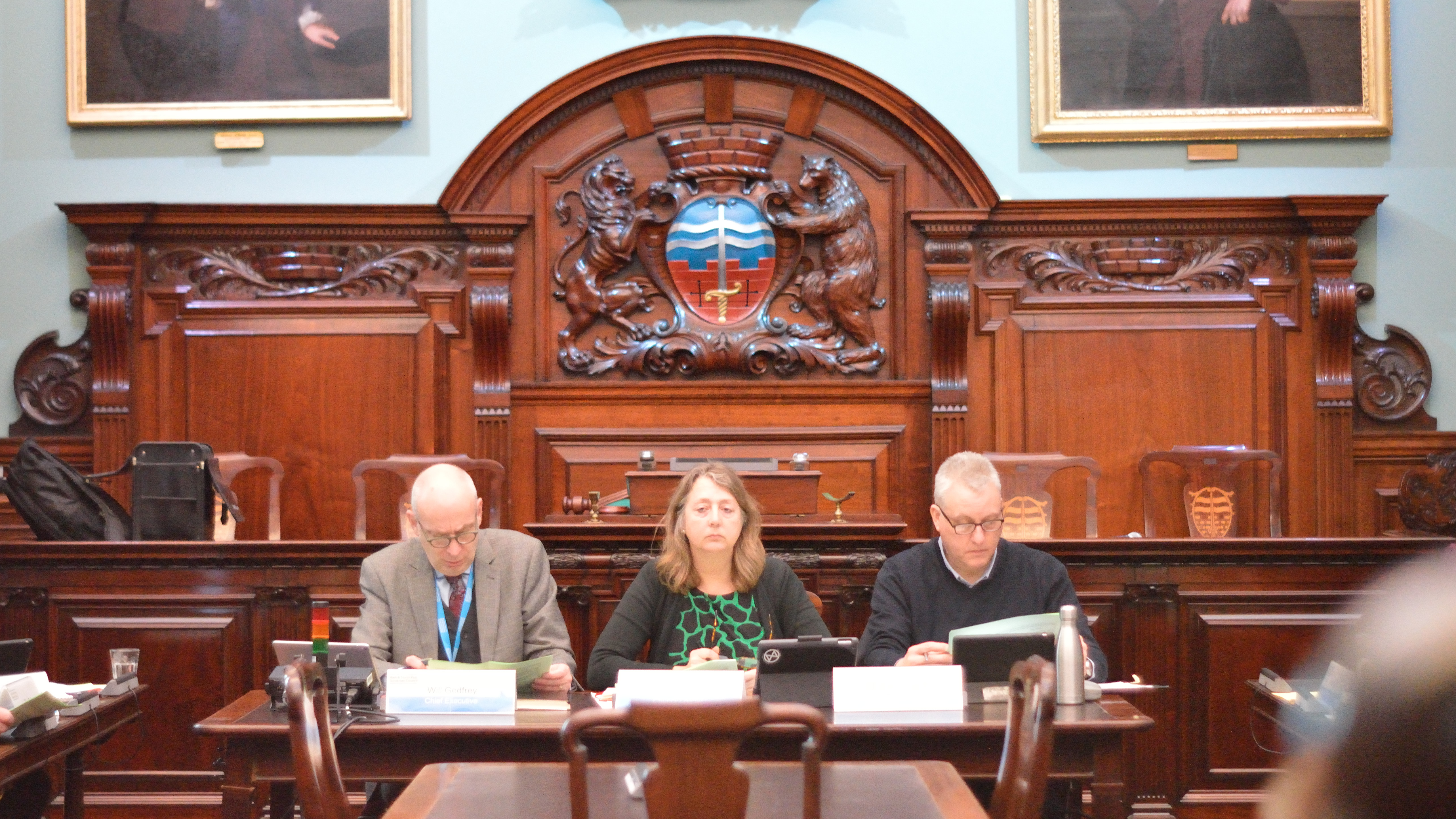 Bath and North East Somerset Council Cabinet meeting in the Council chamber, Bath Guildhall on 16 January 2020. The final agreement to the Bath Clean Air Zone was made during this meeting. The three people at the Chair's table are from left to right: Chief Executive Will Godfrey, Council Leader Dine Romero, Legal Service Manager Michael Hewitt.